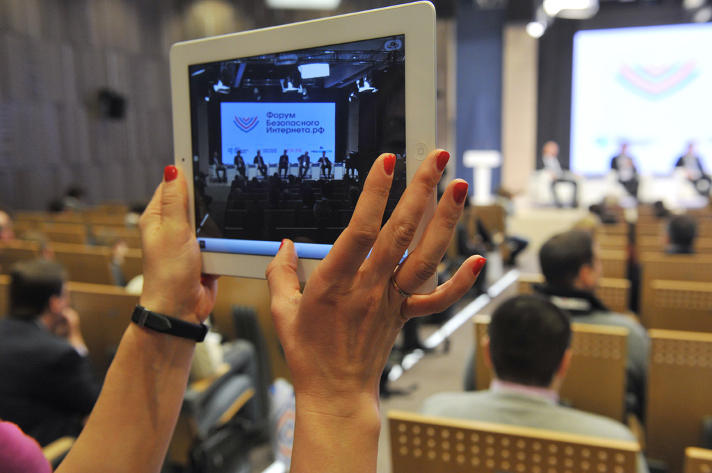 “Third Annual Safer Internet Forum”. Visitor of the Third Annual Safer Internet Forum using her pad to snap the performance of participants.